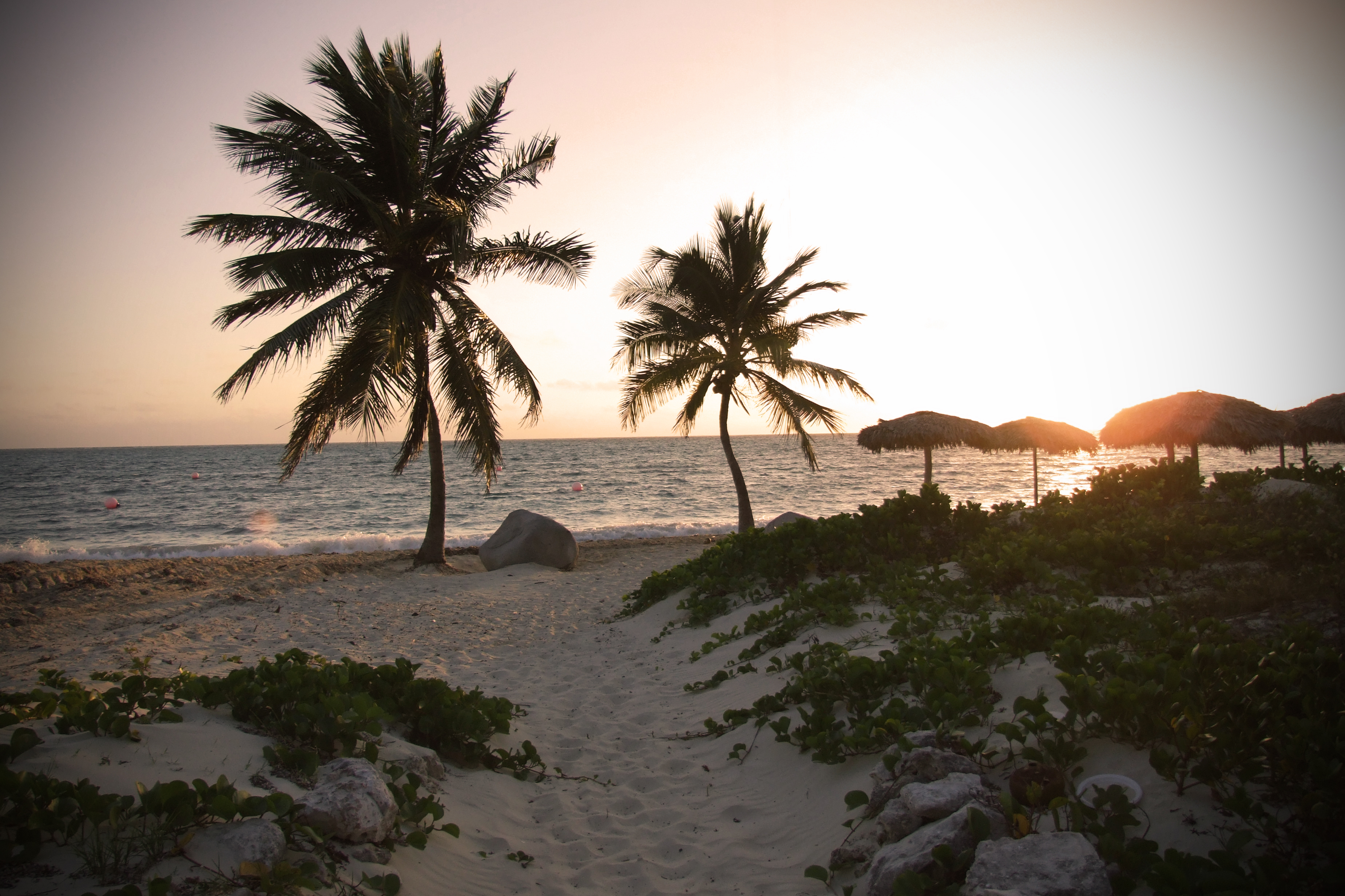 Beach sunset in Cuba.